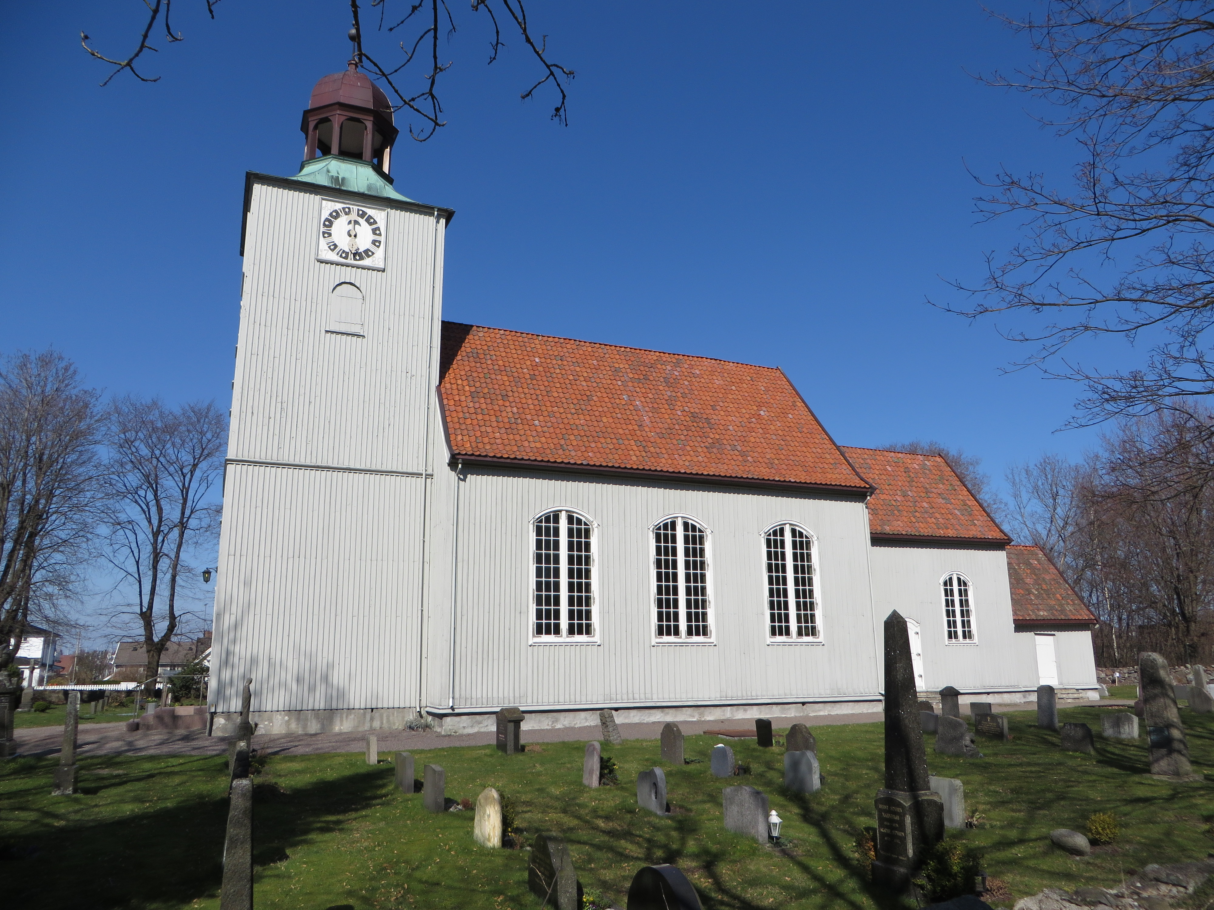 View of the 230 year old Vallø Kirke at Vallø, outside Tønsberg, Norway, on a sunny Sunday at the end of March 2014.